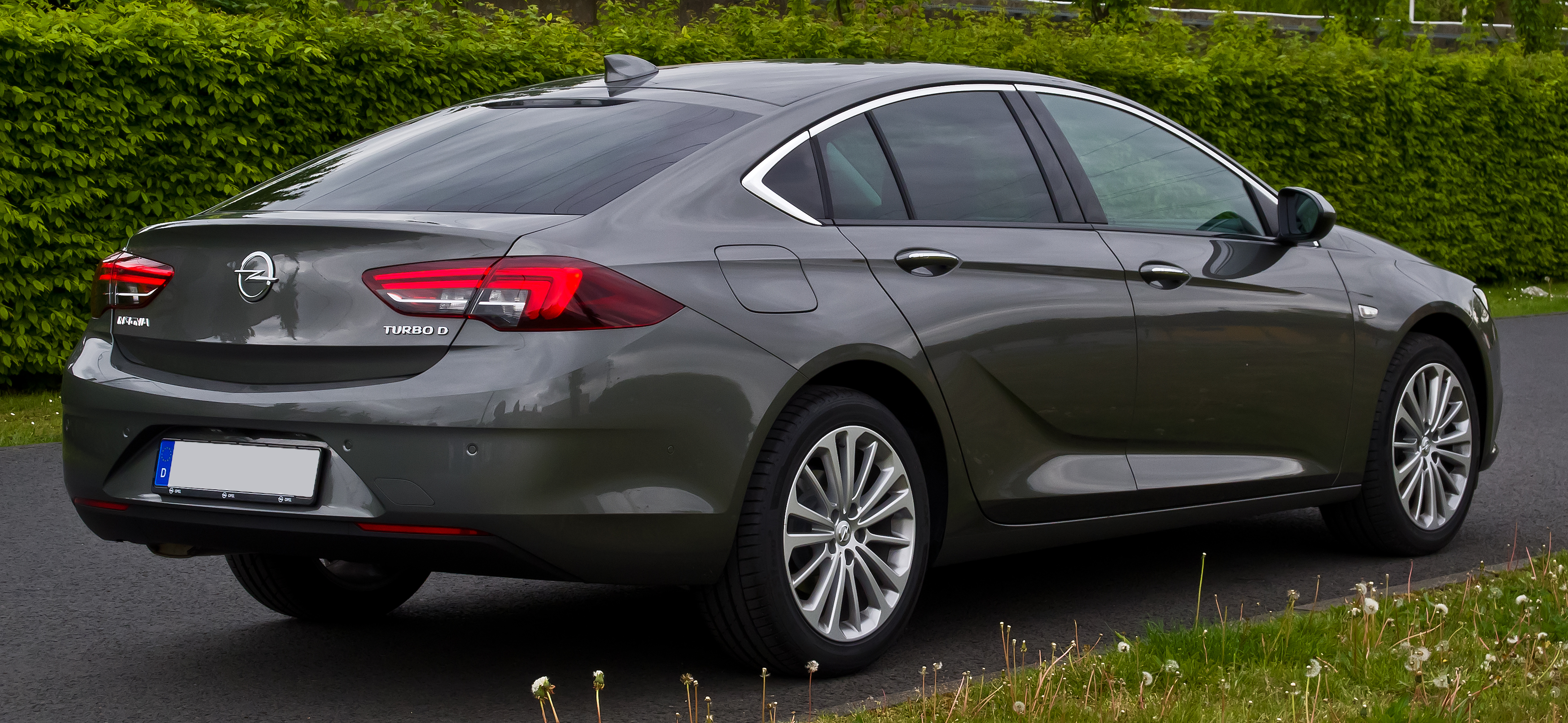 Opel Insignia Grand Sport 1.6 Diesel Business Innovation (B)